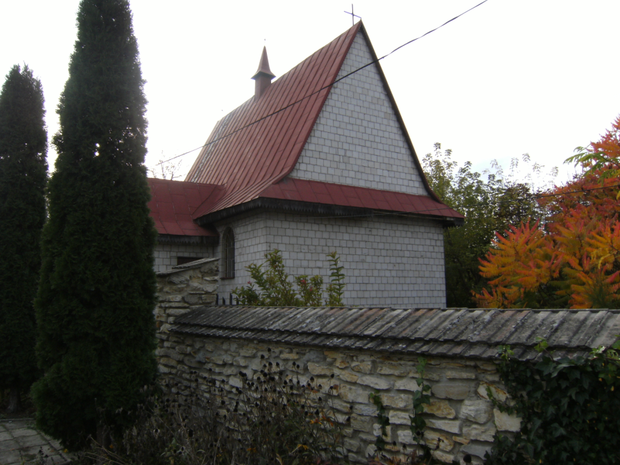 Old Catholic Mariavite Church in Wierzbica